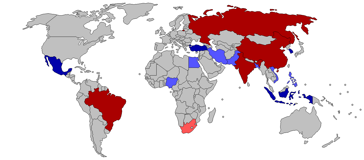 BRICS and Next Eleven Red: BRICS Maroon: Brazil, Russia, India, China (BRICs) Light red: South Africa Blue: Next Eleven Navy blue: Mexico, Indonesia, South Korea, Turkey (MIKT) Light blue: Bangladesh, Egypt, Iran, Nigeria, Pakistan, Philippines, Vietnam